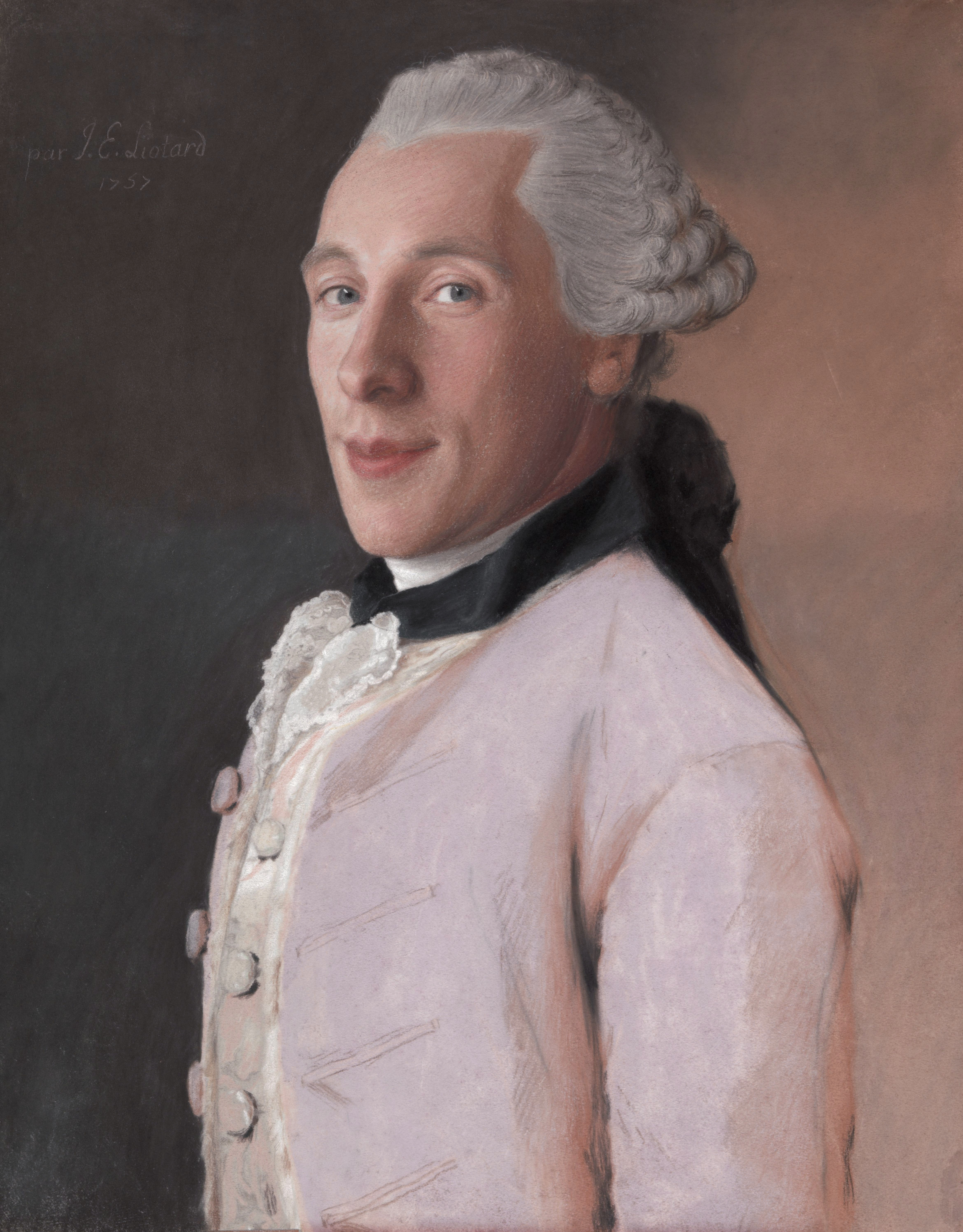 Joachim Rendorp, husband of Hillegonda Schuyt parchment 59 × 49 cm signed t.l.: par J.E. Liotard / 1757